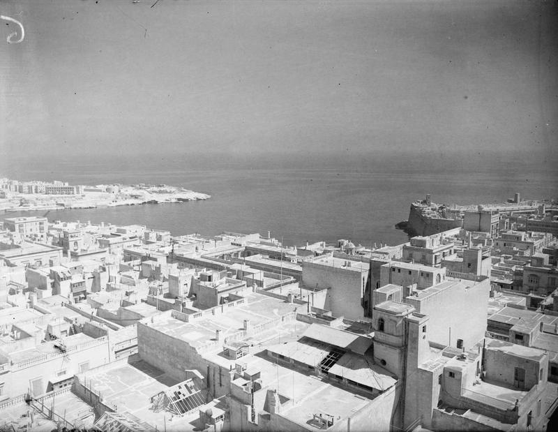 Aerial Views of Mersa Museta Harbour, Malta. 3 August 1942.